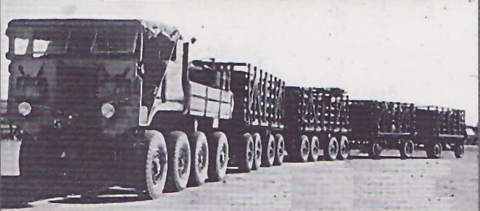 Government Roadtrain with four trailers carrying a load bulls